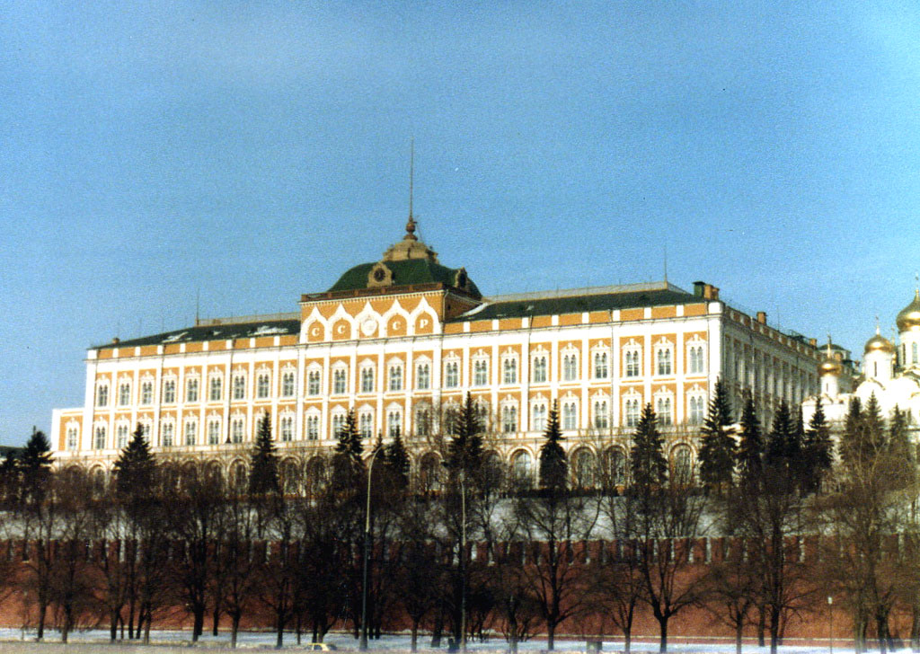 Seat of the Supreme Soviet of the USSR, the Grand Kremlin Palace in the Moscow Kremlin, February 1982